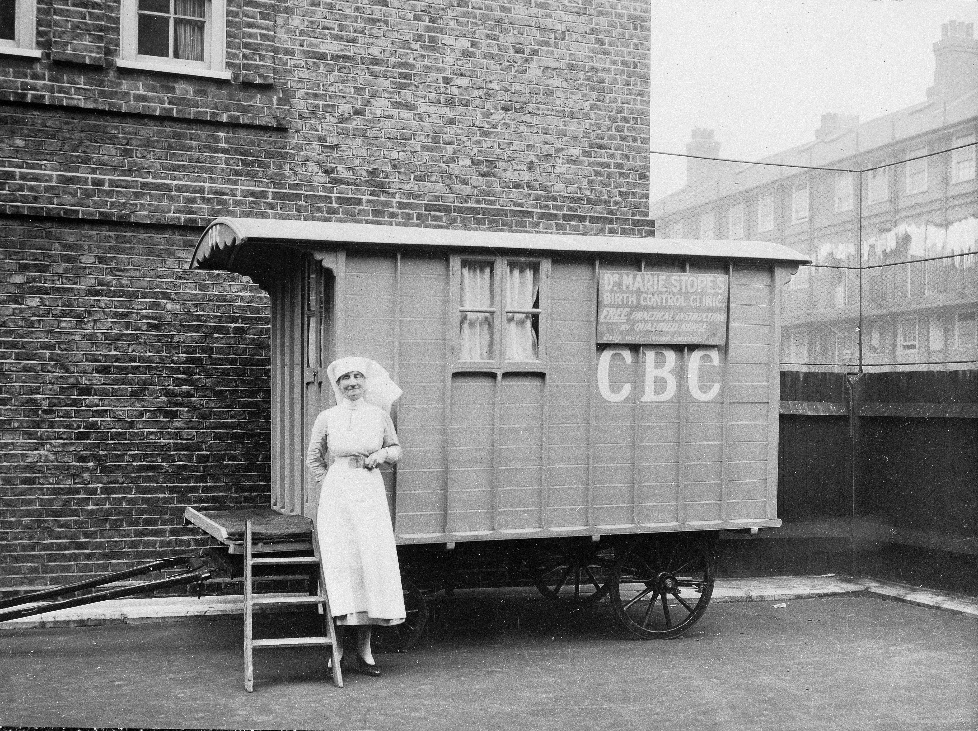 Birth control clinic in caravan, with nurse. Archives & Manuscripts Keywords: Marie Carmichael Stopes